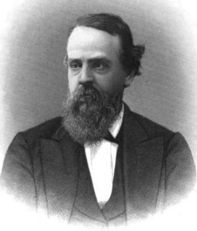 John Coburn, US Representative from Indiana